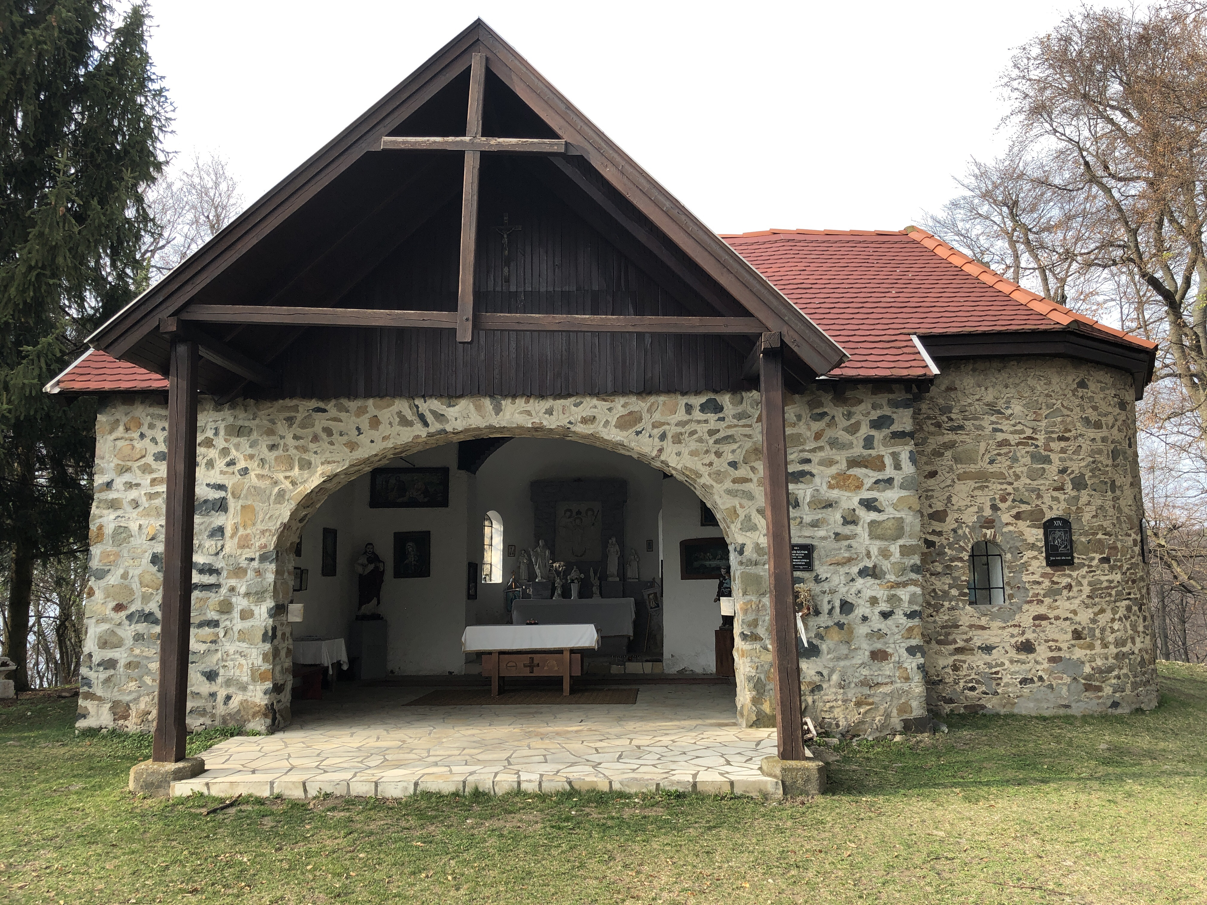 A Karancsalja külterületéshez tartozó Szent Margit-kápolna homlokzata tavasszal.